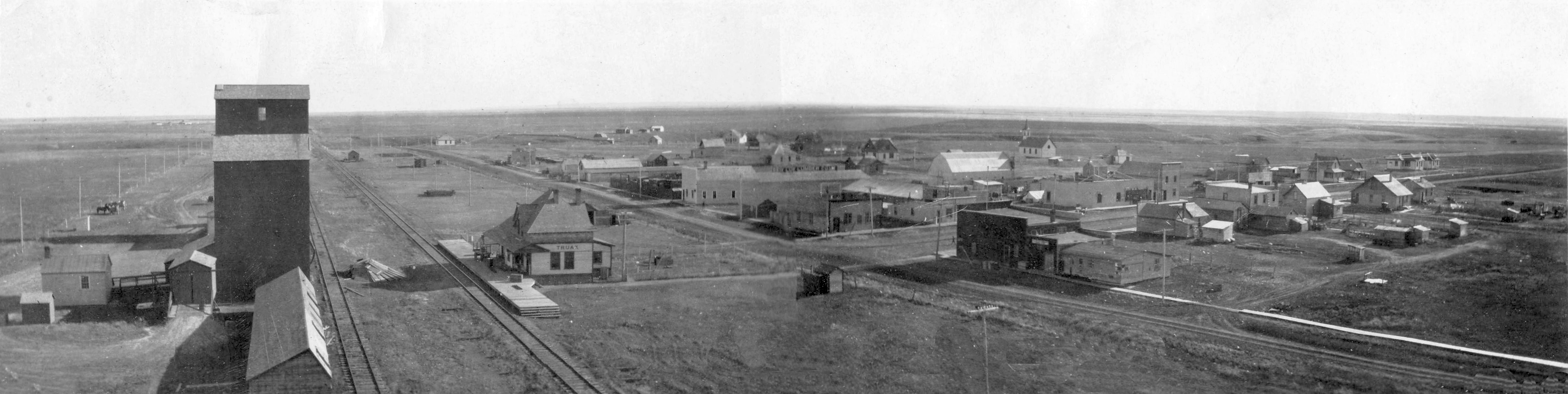 Bird's eye view of Truax, Sask. Oct. 20th, 20